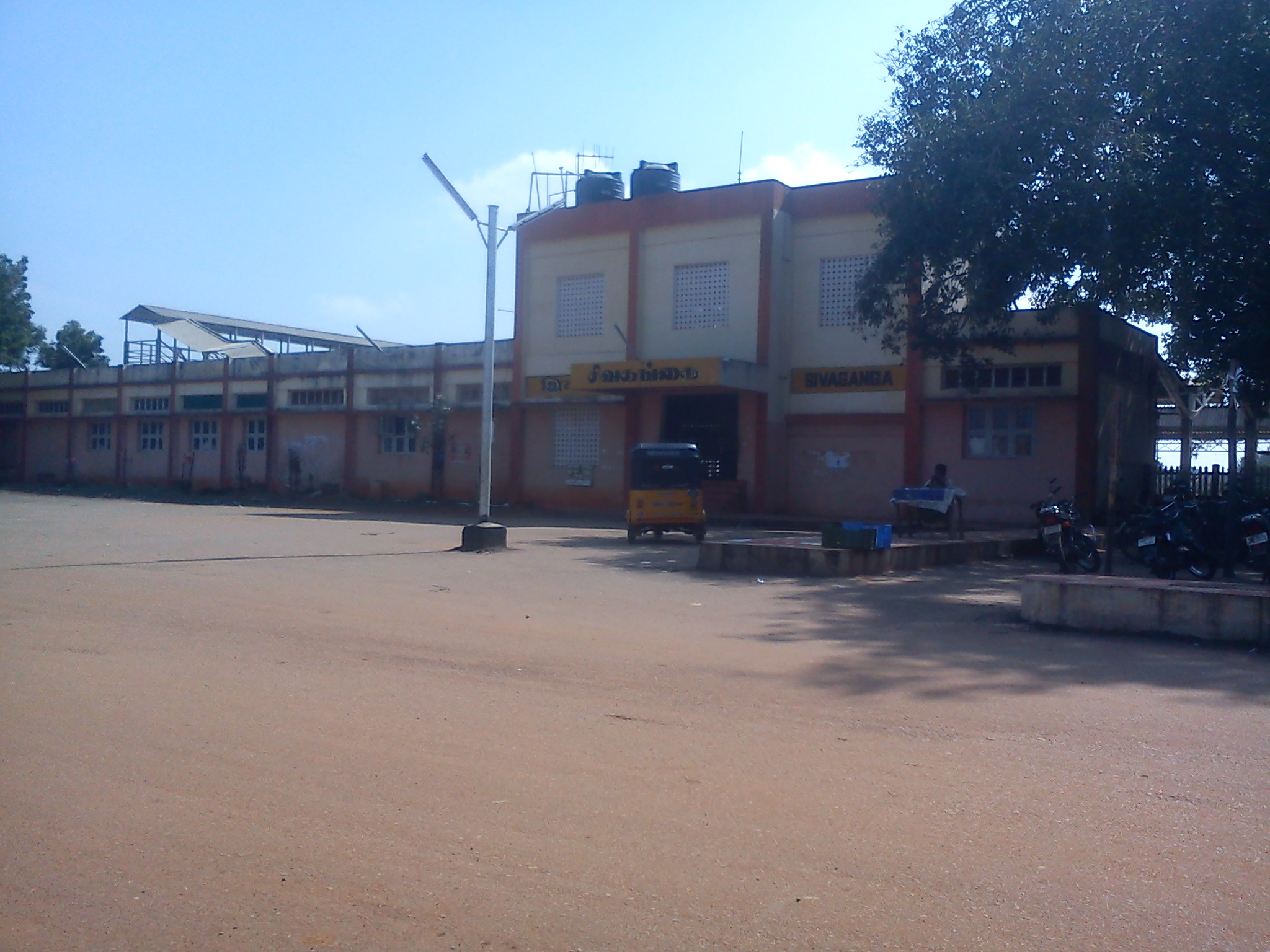 This photo indicate sivagangai railway station building.